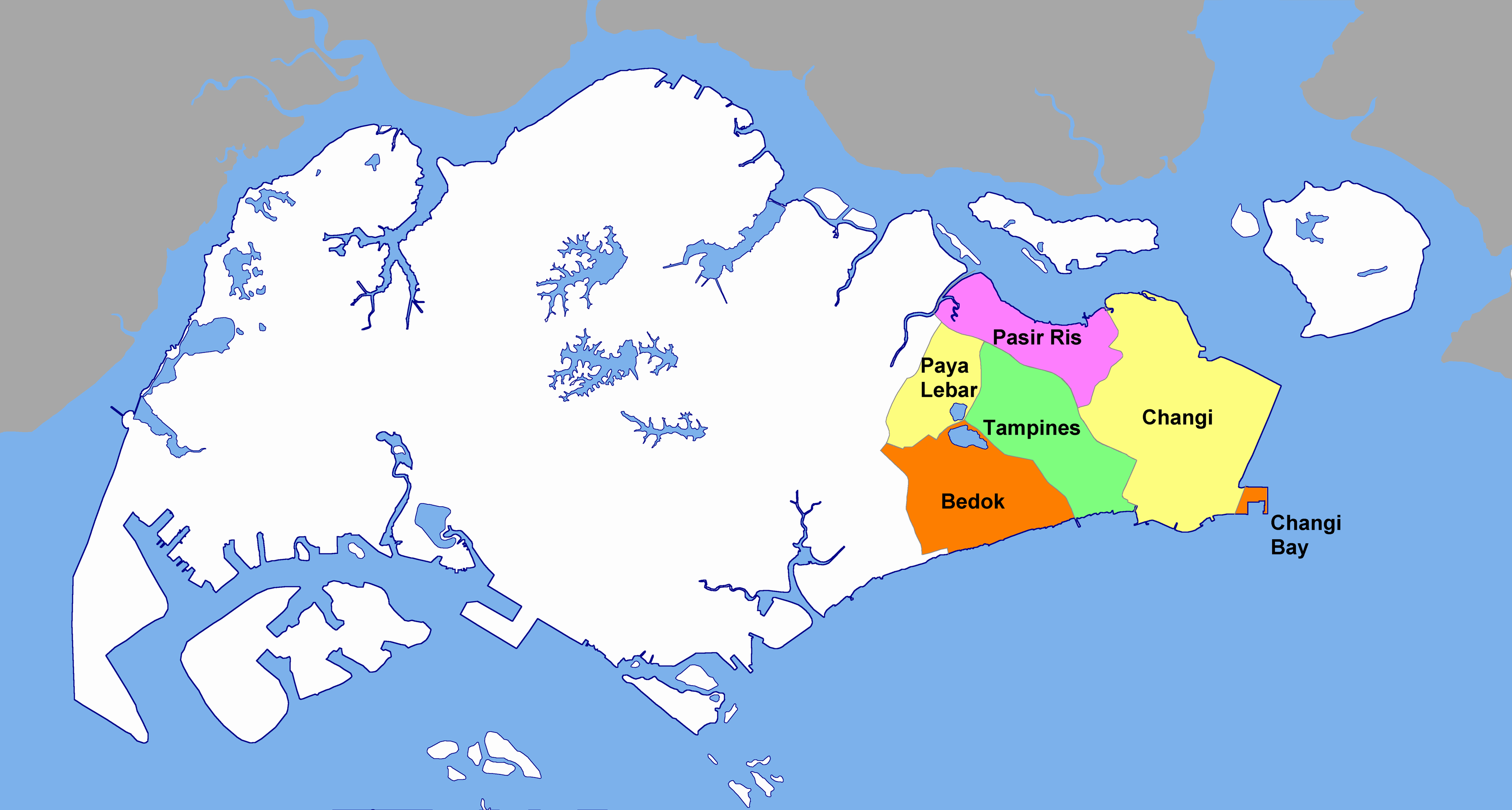 Created by Vsion